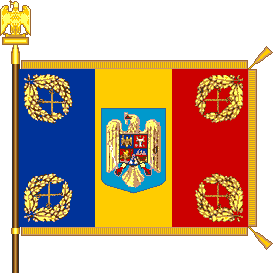 The flag of the Romanian Army (Land force model).